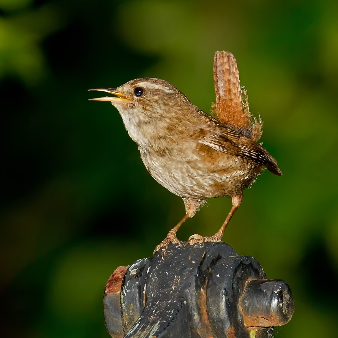 Eurasian Wren